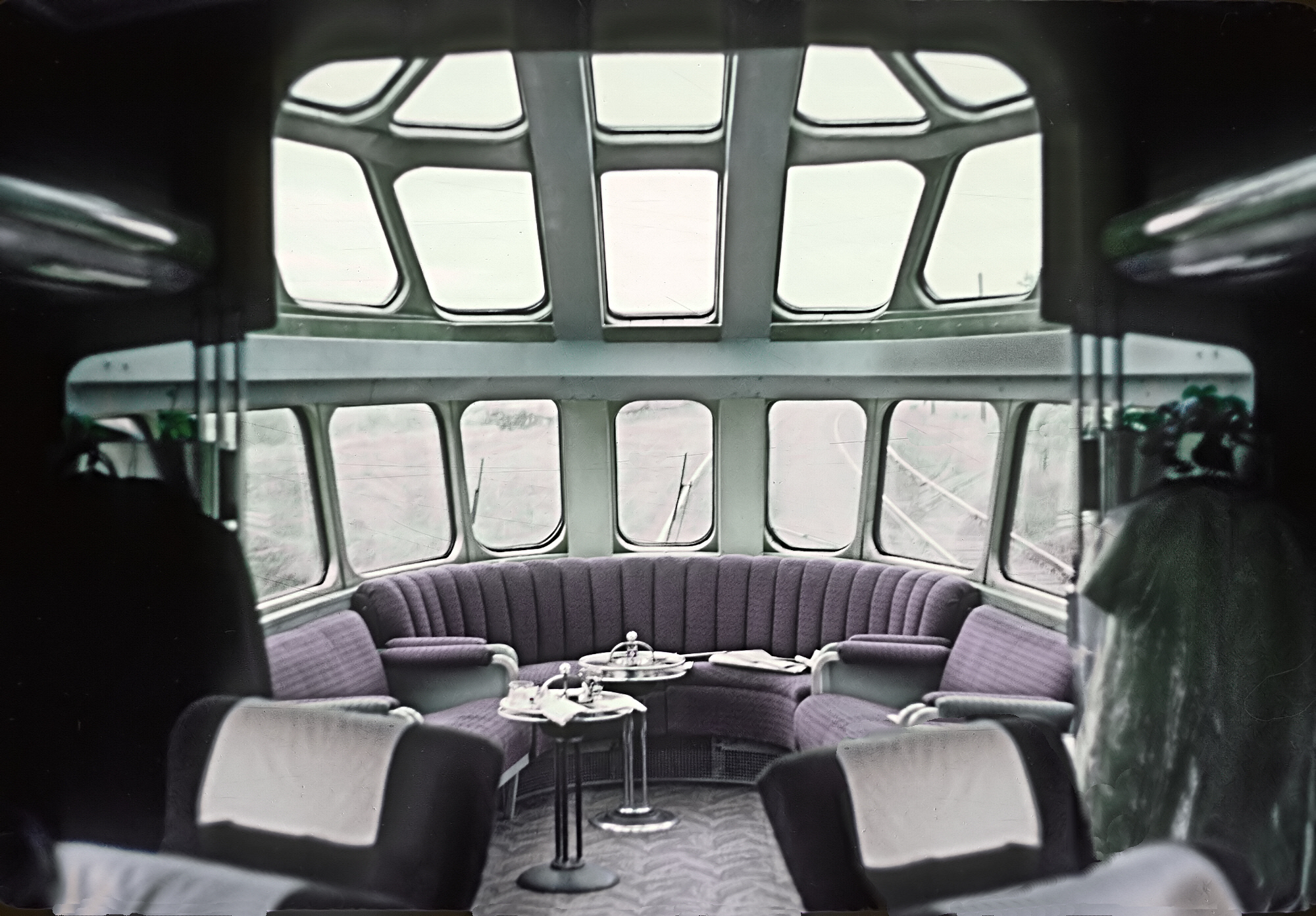 Roger Puta's camera looked out the rear of Train 2, the Afternoon Hiawatha, east of New Lisbon, WI on August 8, 1967.